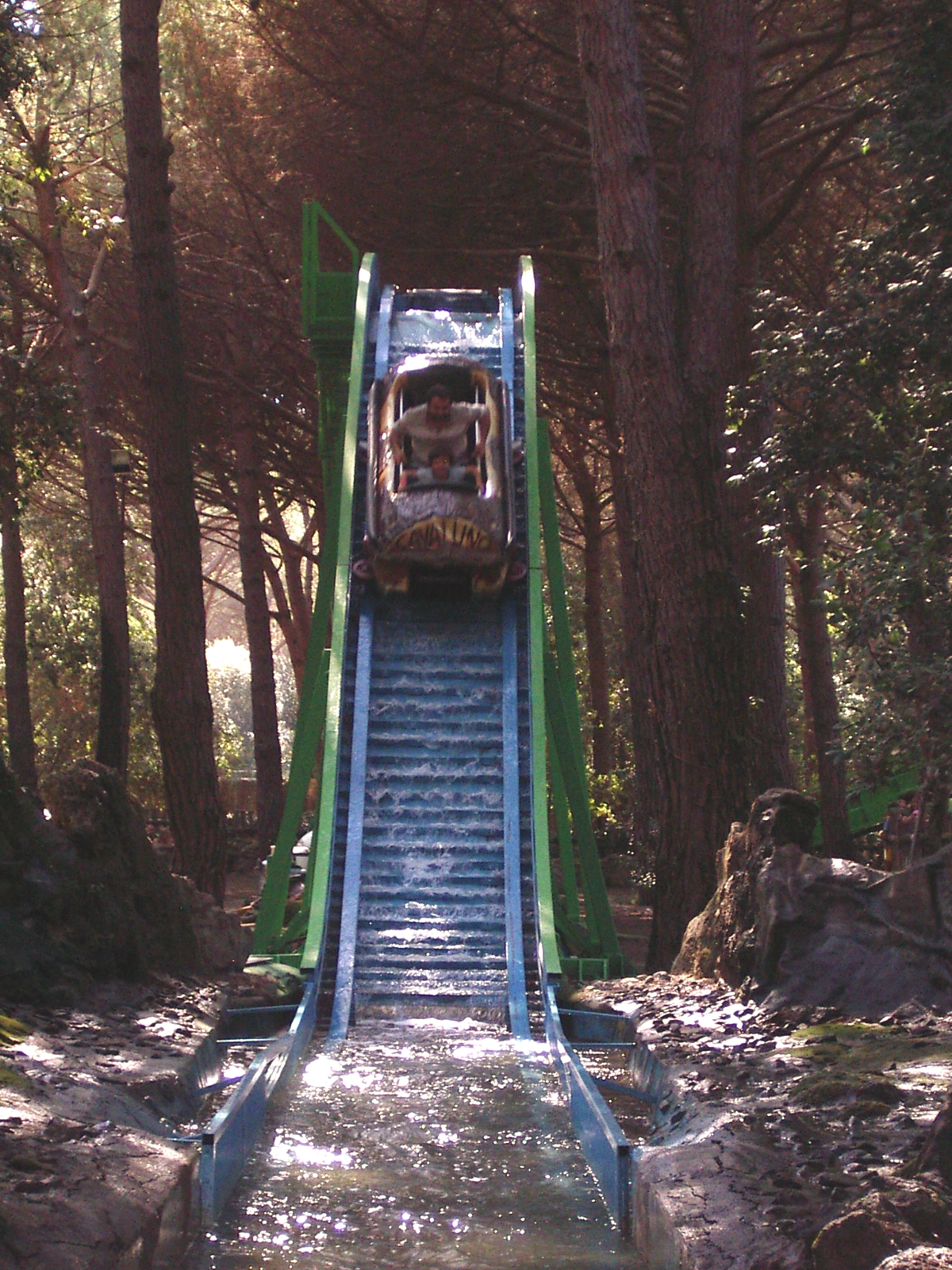 The Colorado Boats how appears today